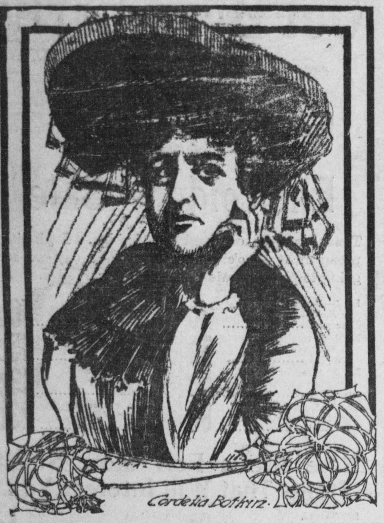 In 1899, Cordelia Botkin was convicted of murder. In 1904, she was granted a retrial, but was convicted a second time.